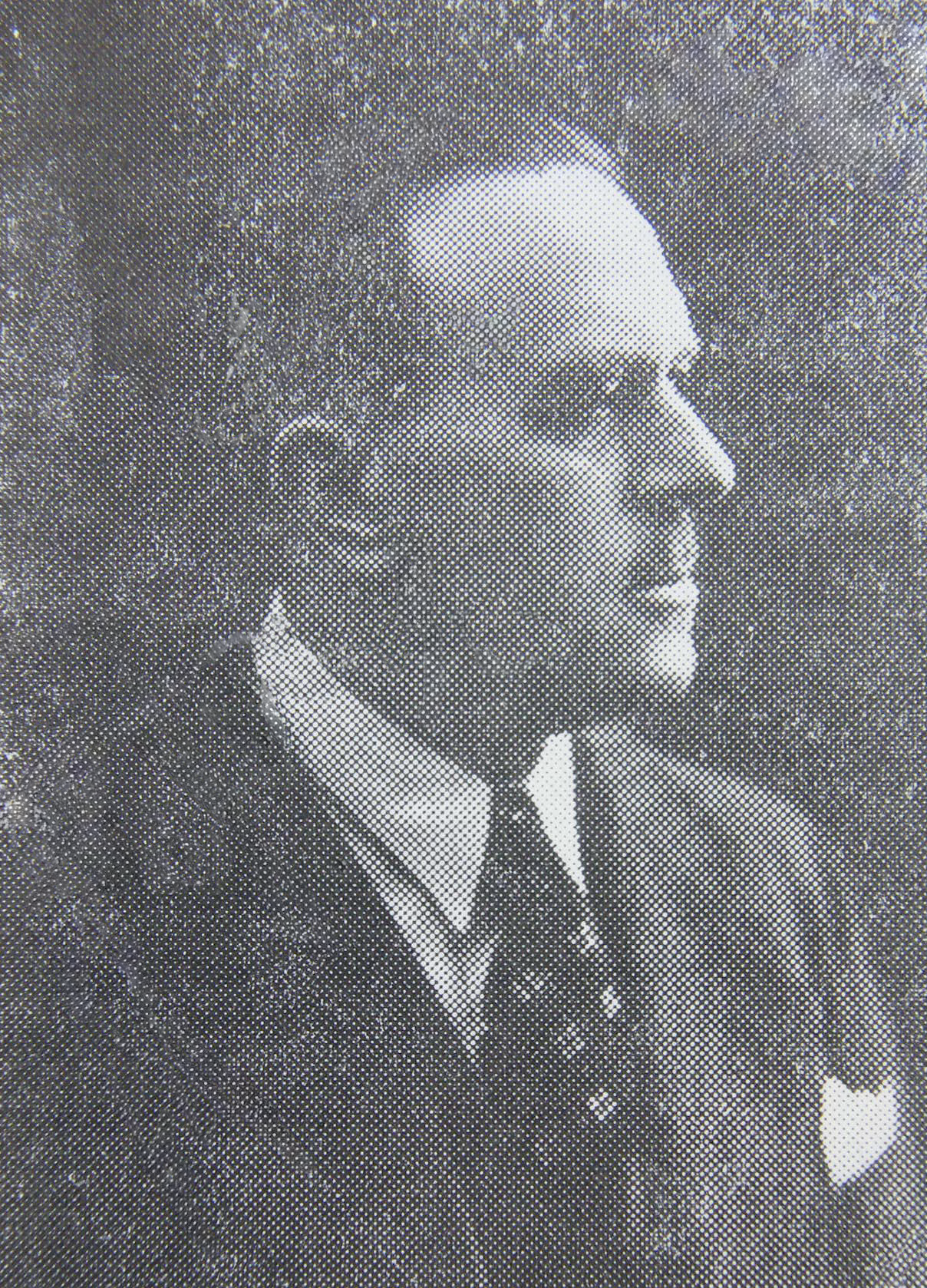 Romanian historian and biologist Constantin Kirițescu